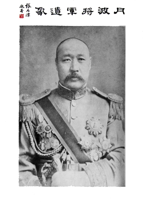 Zhang Guorong (1876?－1934)